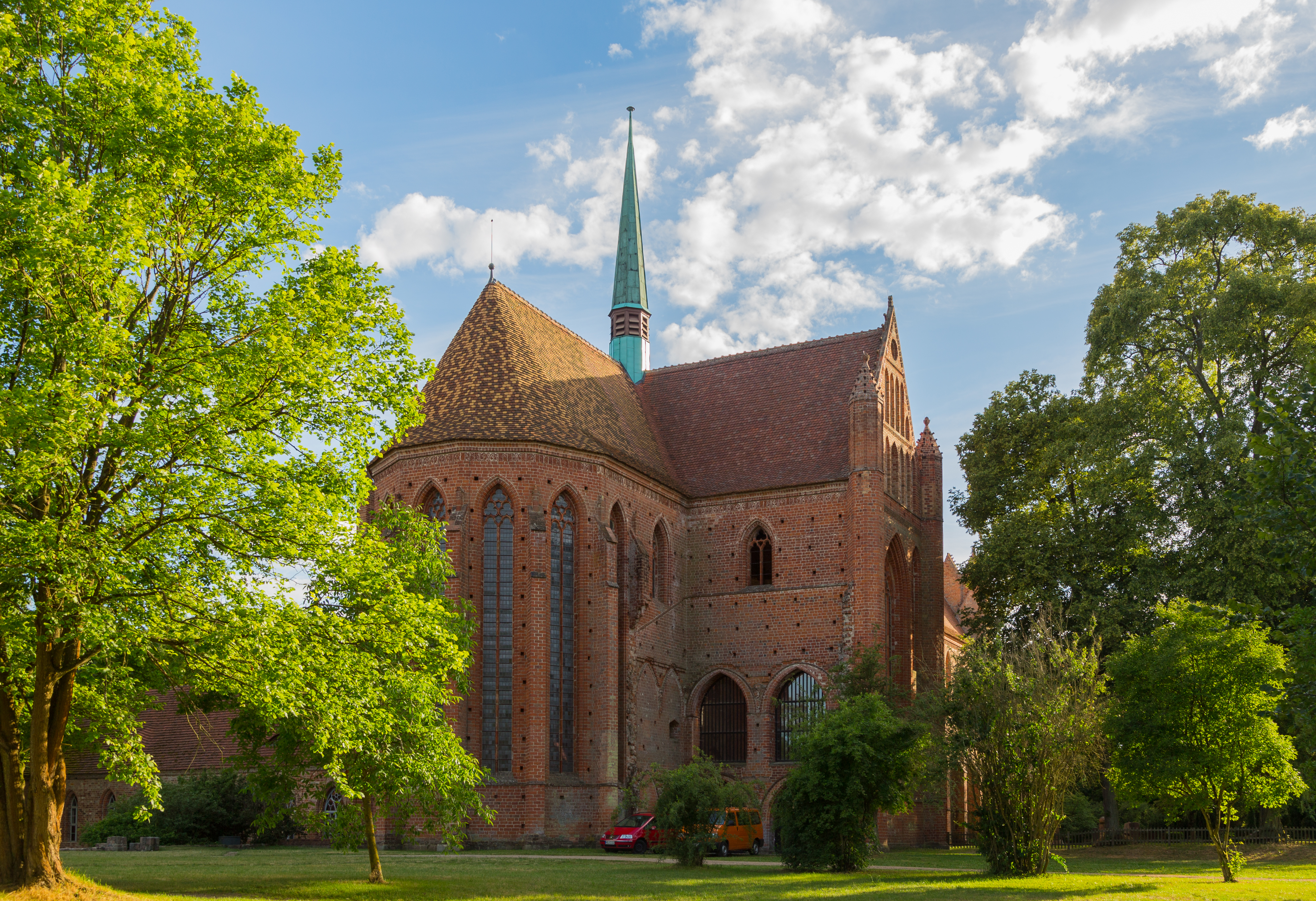 Chorin Abbey Church (Klosterkirche Chorin) near Chorin, Landkreis Barnim, Brandenburg, Germany.